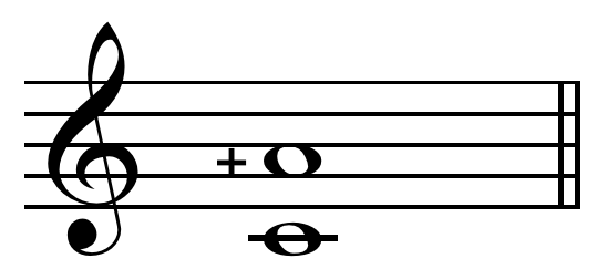 Pythagorean major sixth on C = A+ (Ben Johnston's notation). 27:16 = 905.87 cents. Limit: 3-limit.